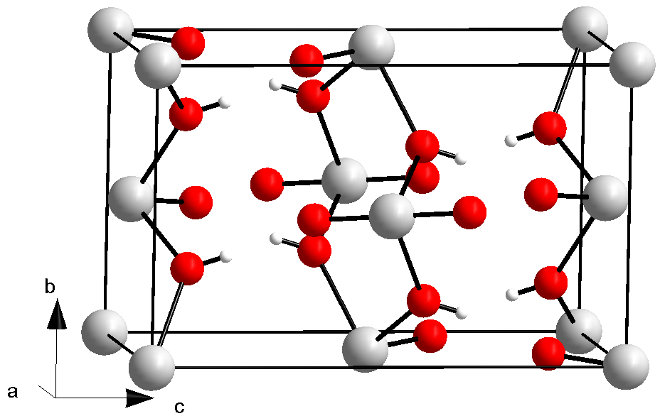 Crystal structure of β-Uranyl hydroxide